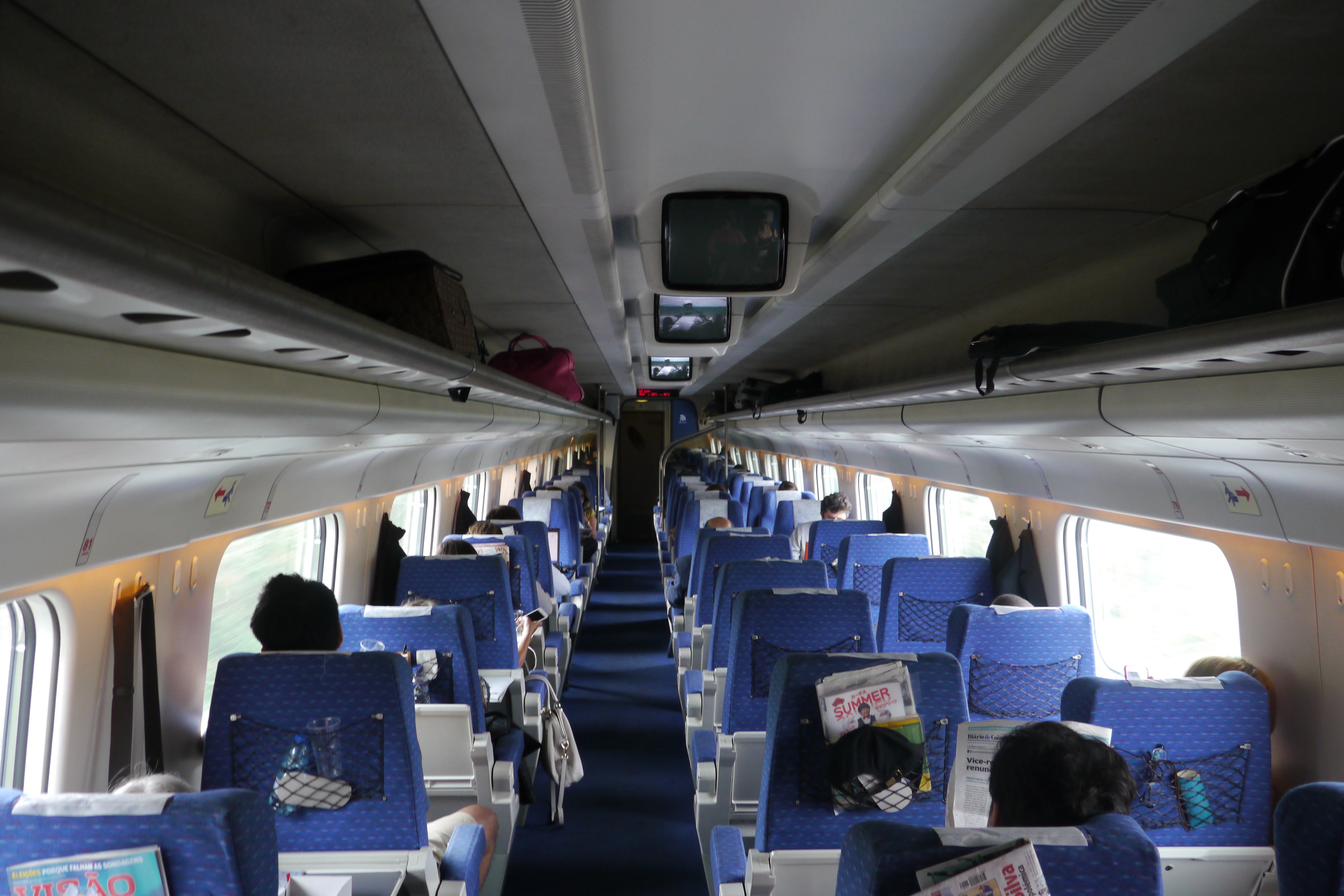 First class carriage on the Oporto - Lisbon service.